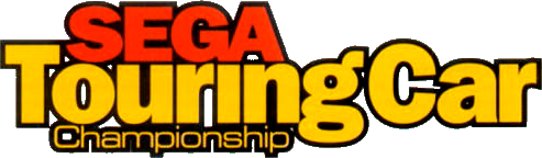 Sega Touring Car Championship - Logo for the US Sega Saturn game.